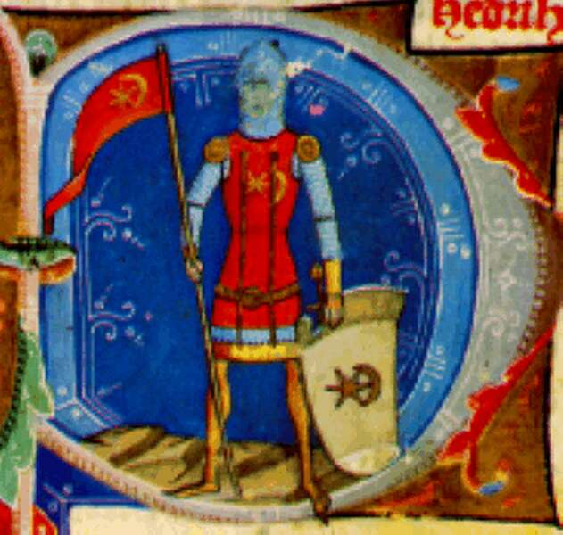 Knight Henrik in Chronicon Pictum